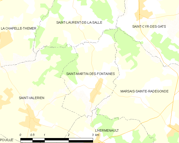 Map of French municipality Saint-Martin-des-Fontaines